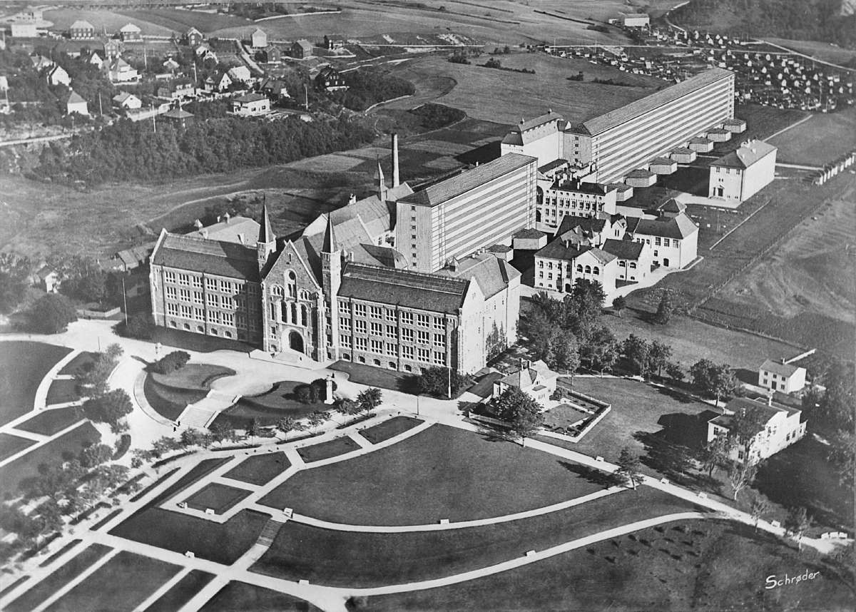 photomontage of two large buildings for offices and auditoria at NTH, on what is now known as Campus NTNU Gløshaugen, Trondheim. The buildings were designed by architect Karl Grevstad. The plan was later modified, the closest building was removed. The buildings were never erected.